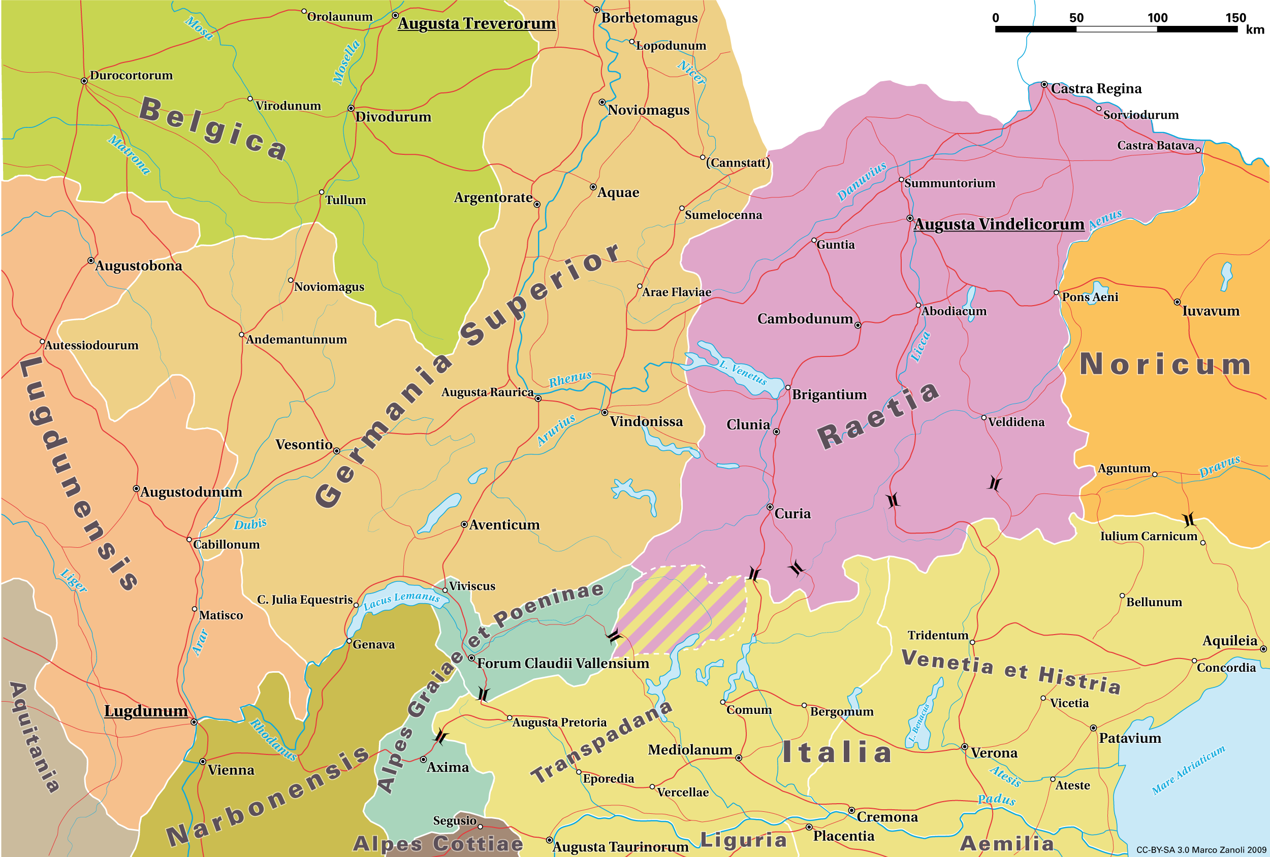 Roman provinces and roads in the Alps around 150 a. Chr.